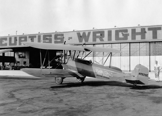 Catalog #: 00063912 Manufacturer: Command-Aire Designation: 5C3 Official Nickname: Notes: Repository: San Diego Air and Space Museum Archive